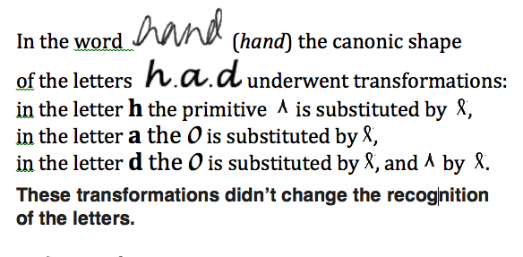 Tansformation of letters